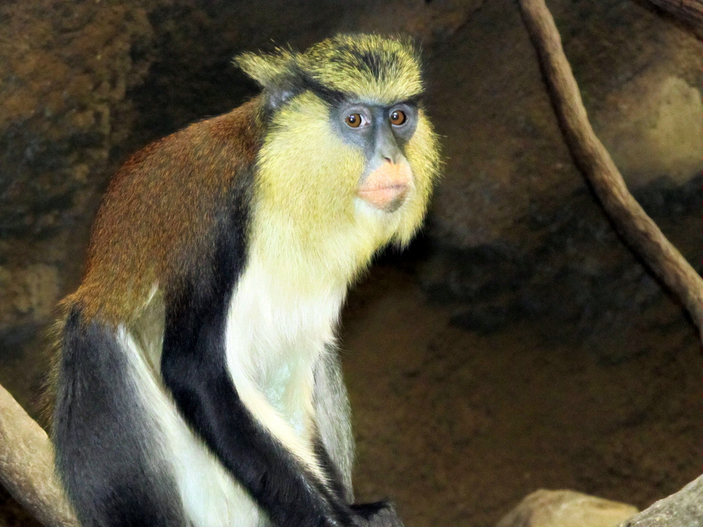 A monkey that is really only found in North America.